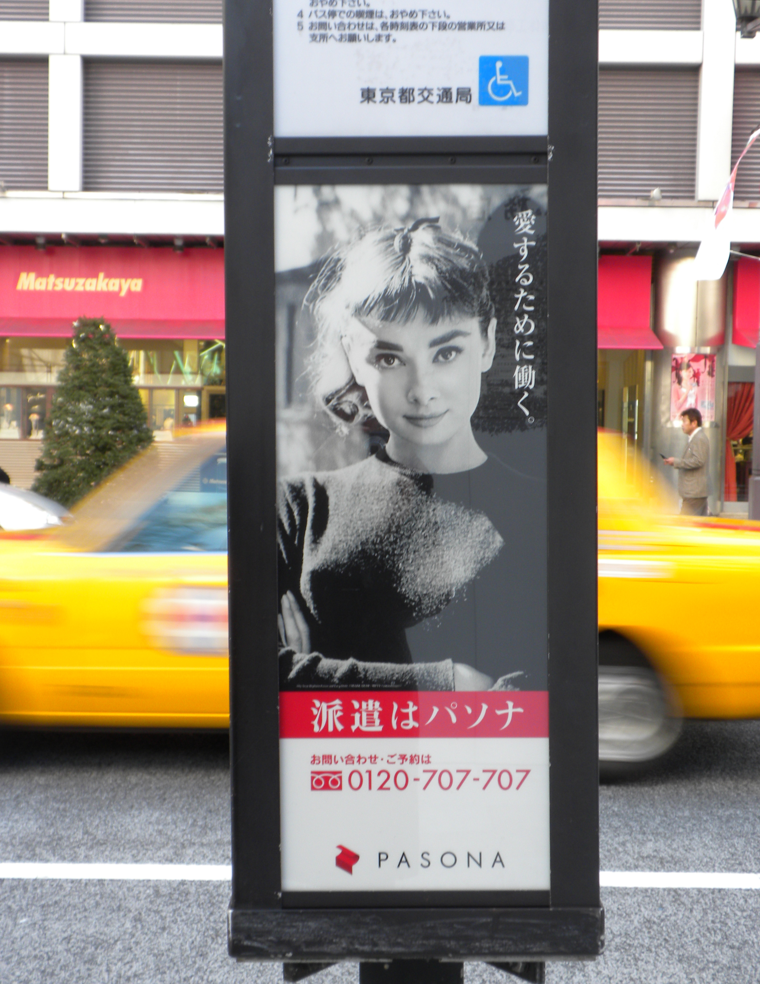 Audrey Hepburn's advertisement in Tokio (2009)